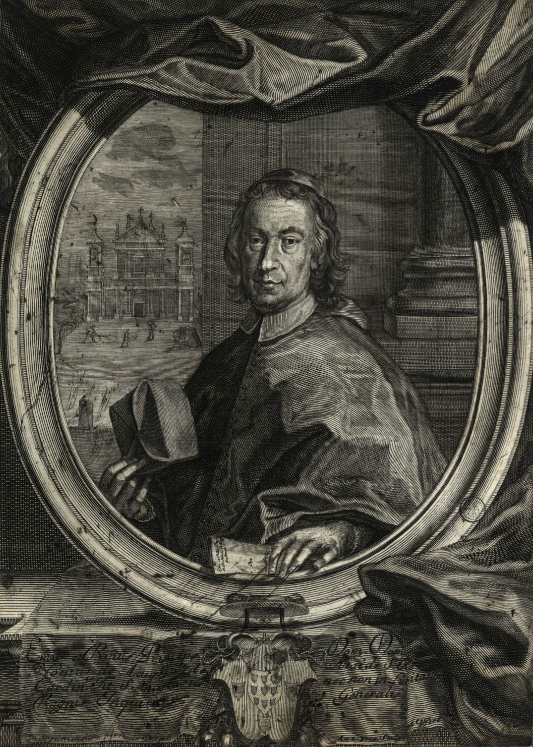 Nuno da Cunha e Ataíde (1664-1750), Portuguese Cardinal and Grand Inquisitor.